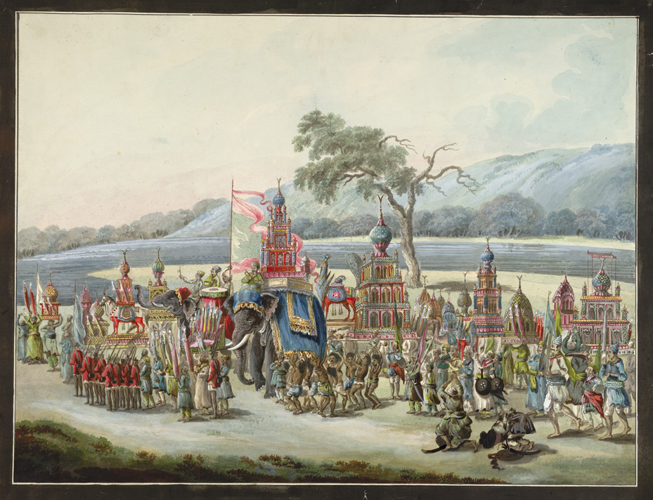 Muharram procession of Shia Islamic community has been observed in South Asia, and documented in the British colonial rule era. The temporary colorfully painted structures called Tazia (Taboot) passed annually through the streets in a mourning procession for Imam who was killed in the 7th century by a Sunni Caliph. The procession would proceed to a water body such as river or ocean for immersion. The above painting is from 1790-1800 period according to the source (Columbia University archives). Source caption: The ta'ziyahs being taken to the river for immersion, a watercolor in the Murshidabad style, c.1790-1800* (BL)